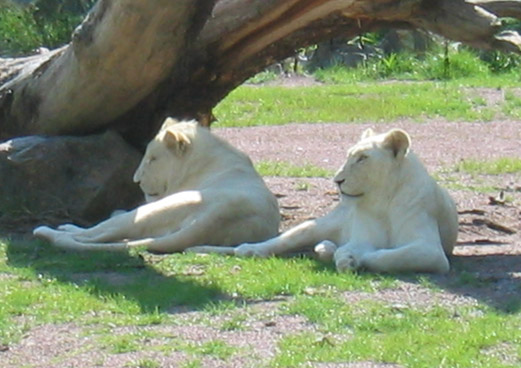 Two white lions, picture taken by Milena (Claire Billaud) at Jurques zoo (Basse-Normandie, France).